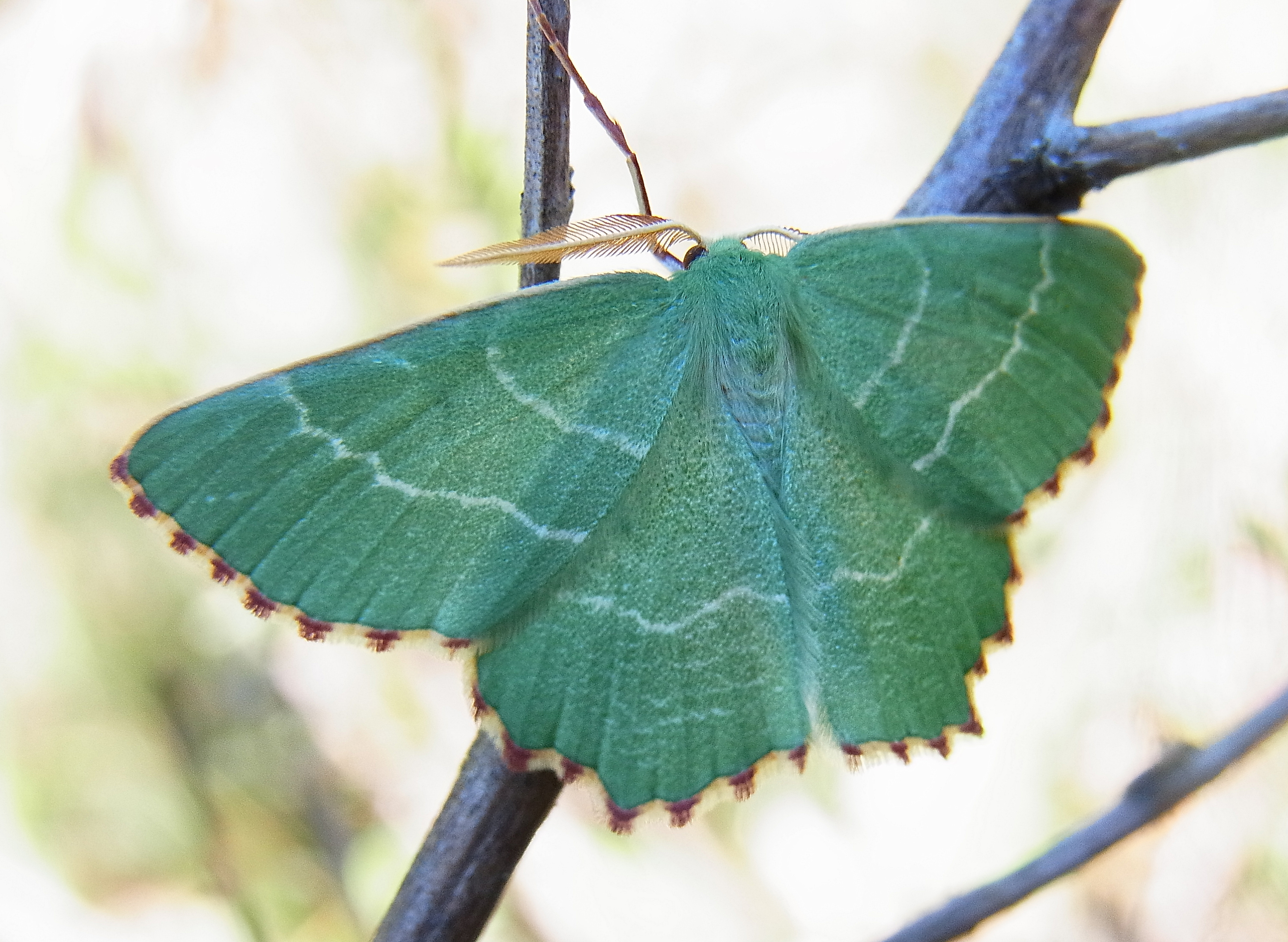 Thalera fimbrialis from Hungary, Bugac-Puszta, at 2012-06-05